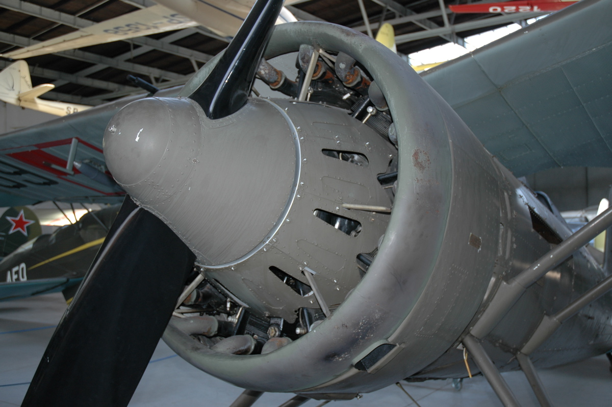 The engine of PZL P.11c fighter (Polish Aviation Museum, Cracow)